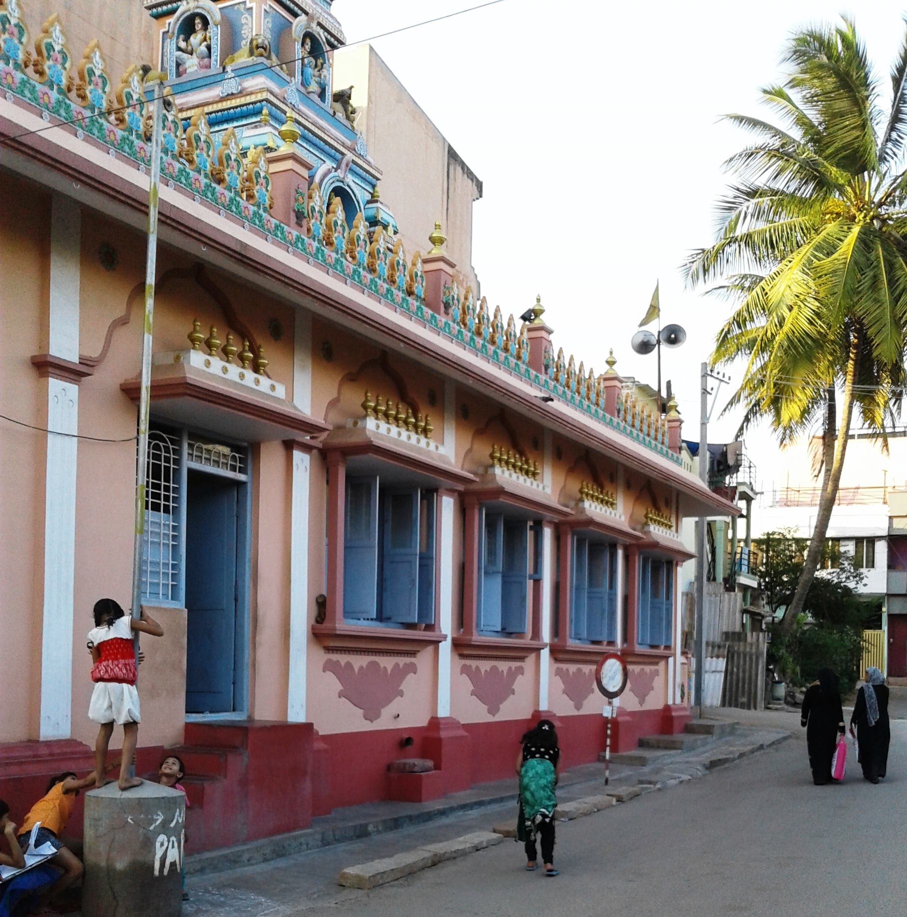 Mandi Mohalla, Geetha Mandir Road, Near Ashoka Road, Mysore, Karnataka India.